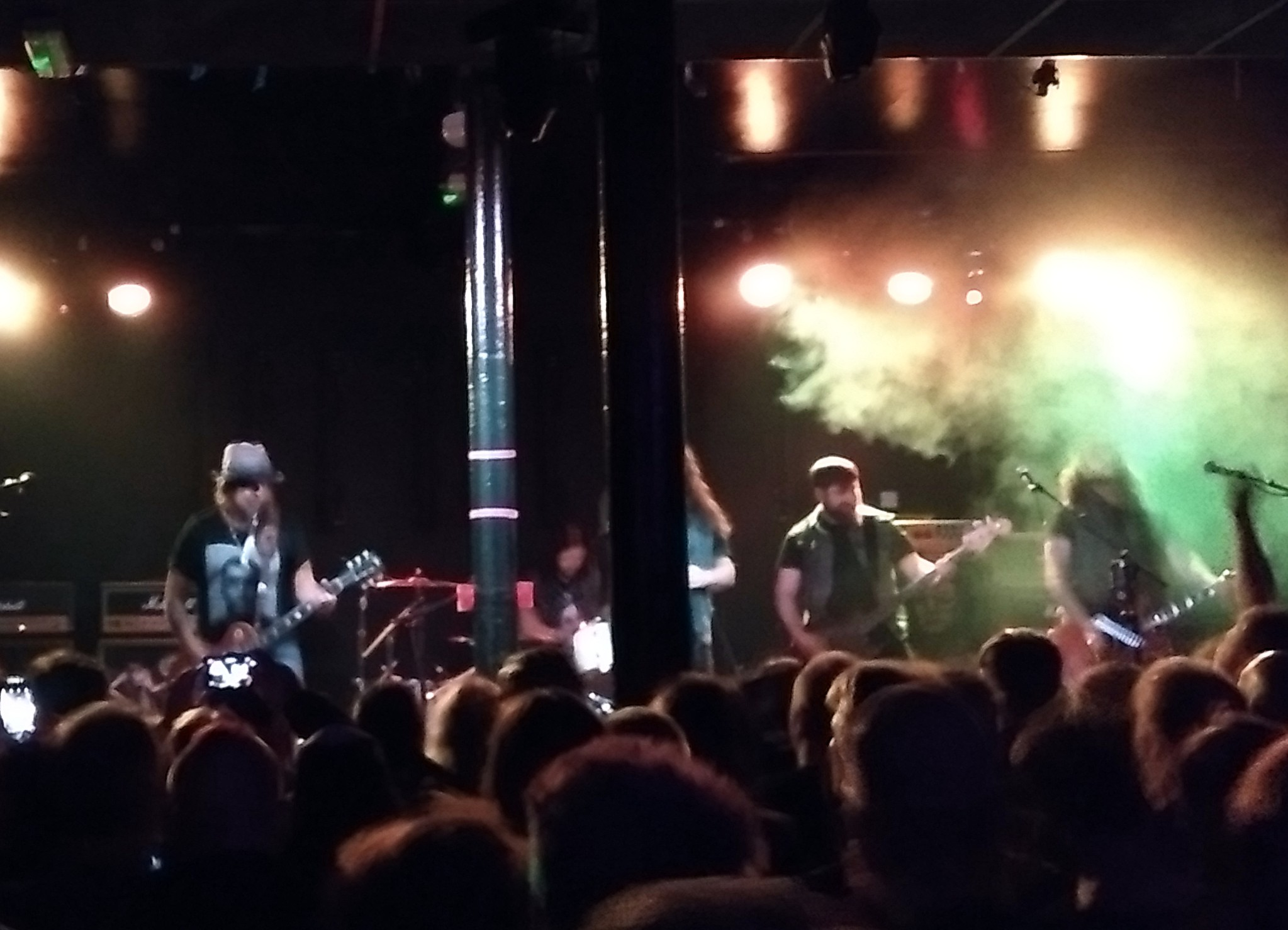 Phil Campbell and the Bastard Sons at Glasgow G3 on 11 November 2018.